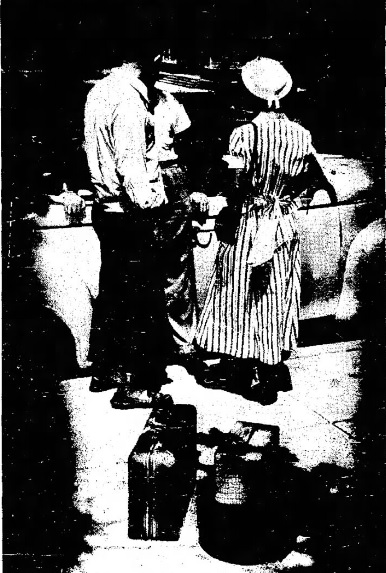 A scene recreation from the Denton Record-Chronicle